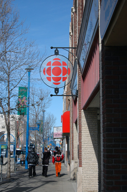 Photo of the outside of the CBC building in Saskatoon.